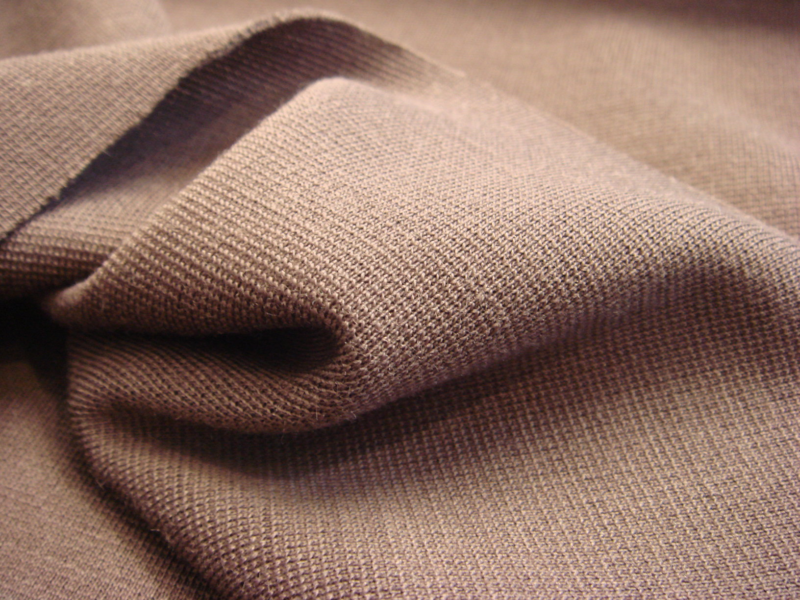 Doublejersey, Jersey, fabric, material, Stoff